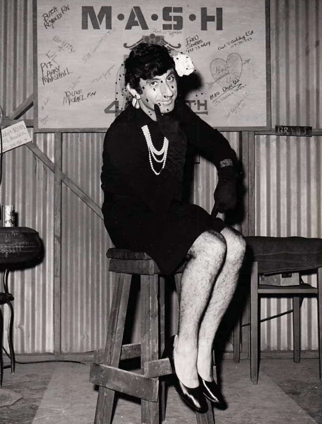 Photo of Jamie Farr as Max Klinger from the television program M.A.S.H..